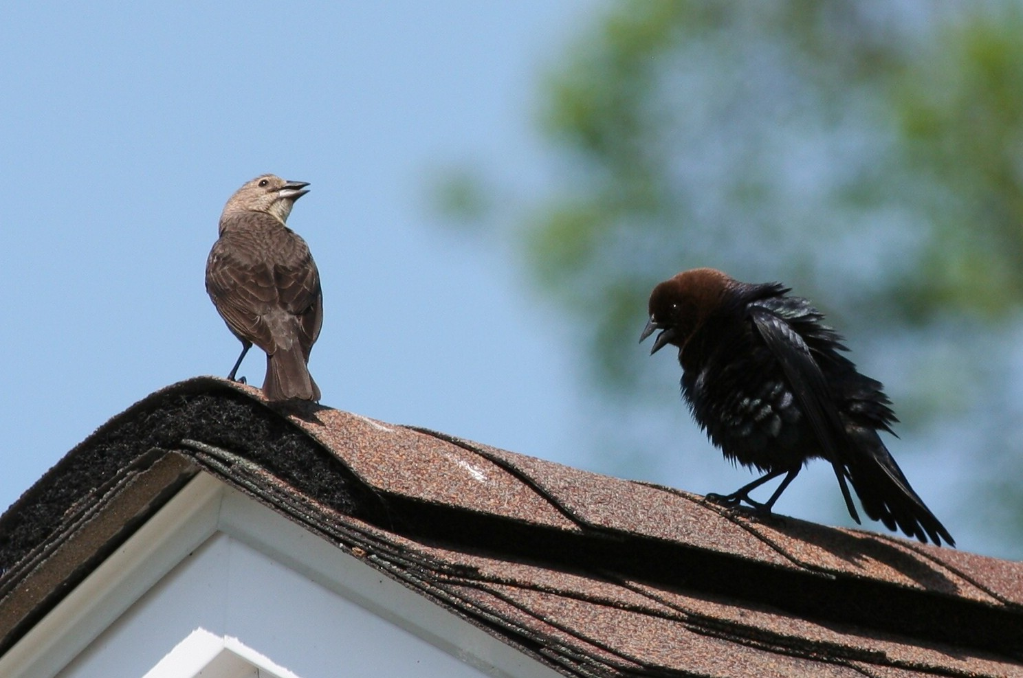 Brown-headed Cowbirds - courtship behavior. Jan Malik, 2007